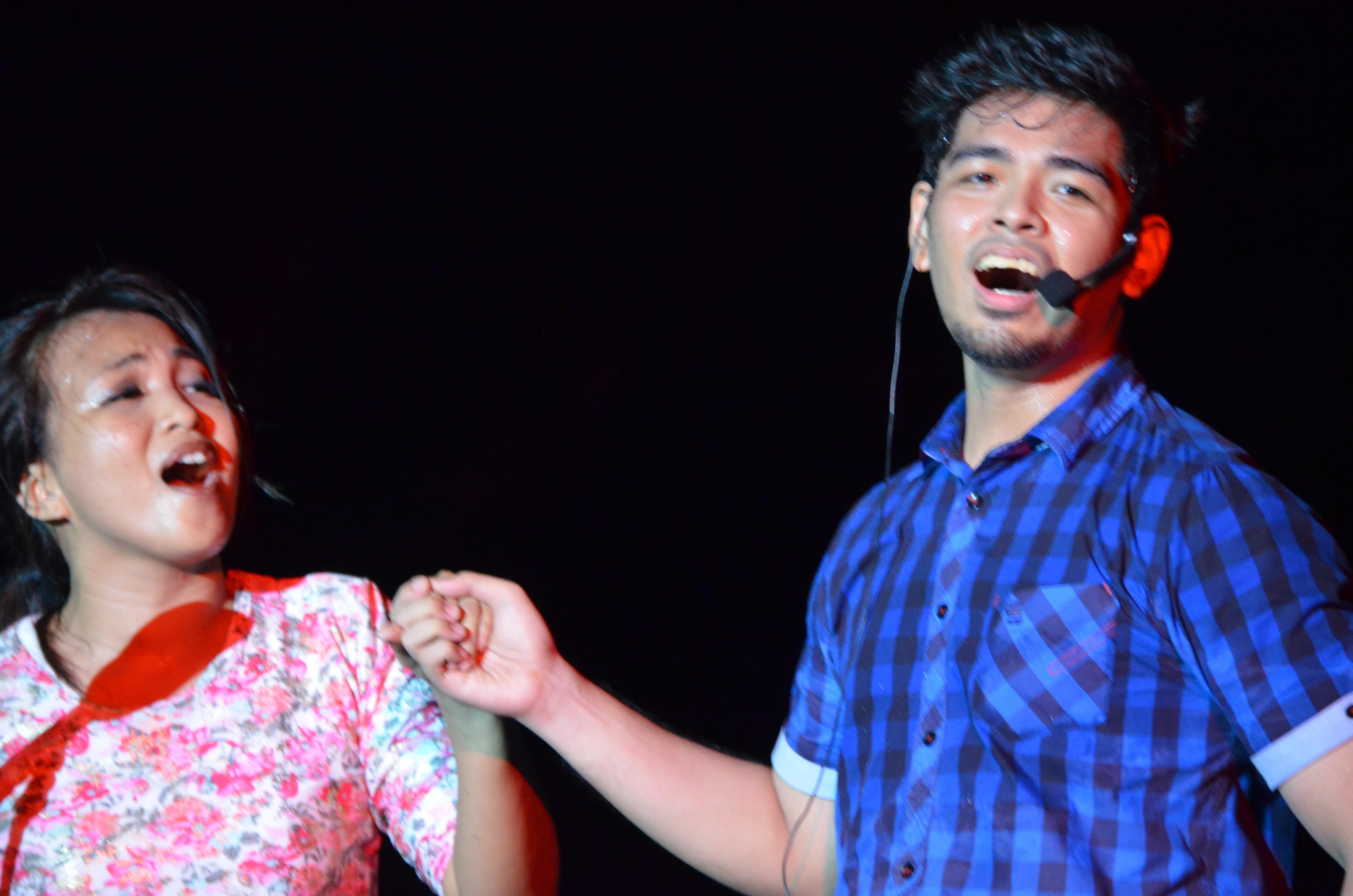 Performance during the staging of Lunop han Dughan at University of the Philippines Visayas Tacloban College in 2019